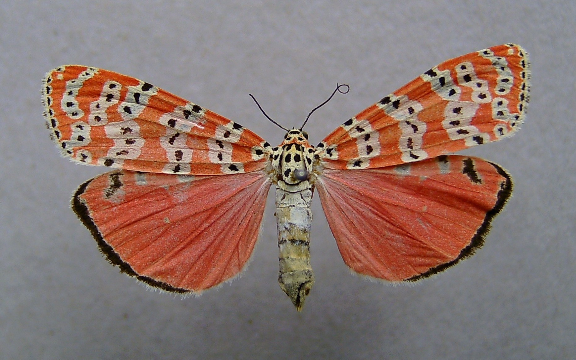 Utetheisa ornatrix, Jamaica